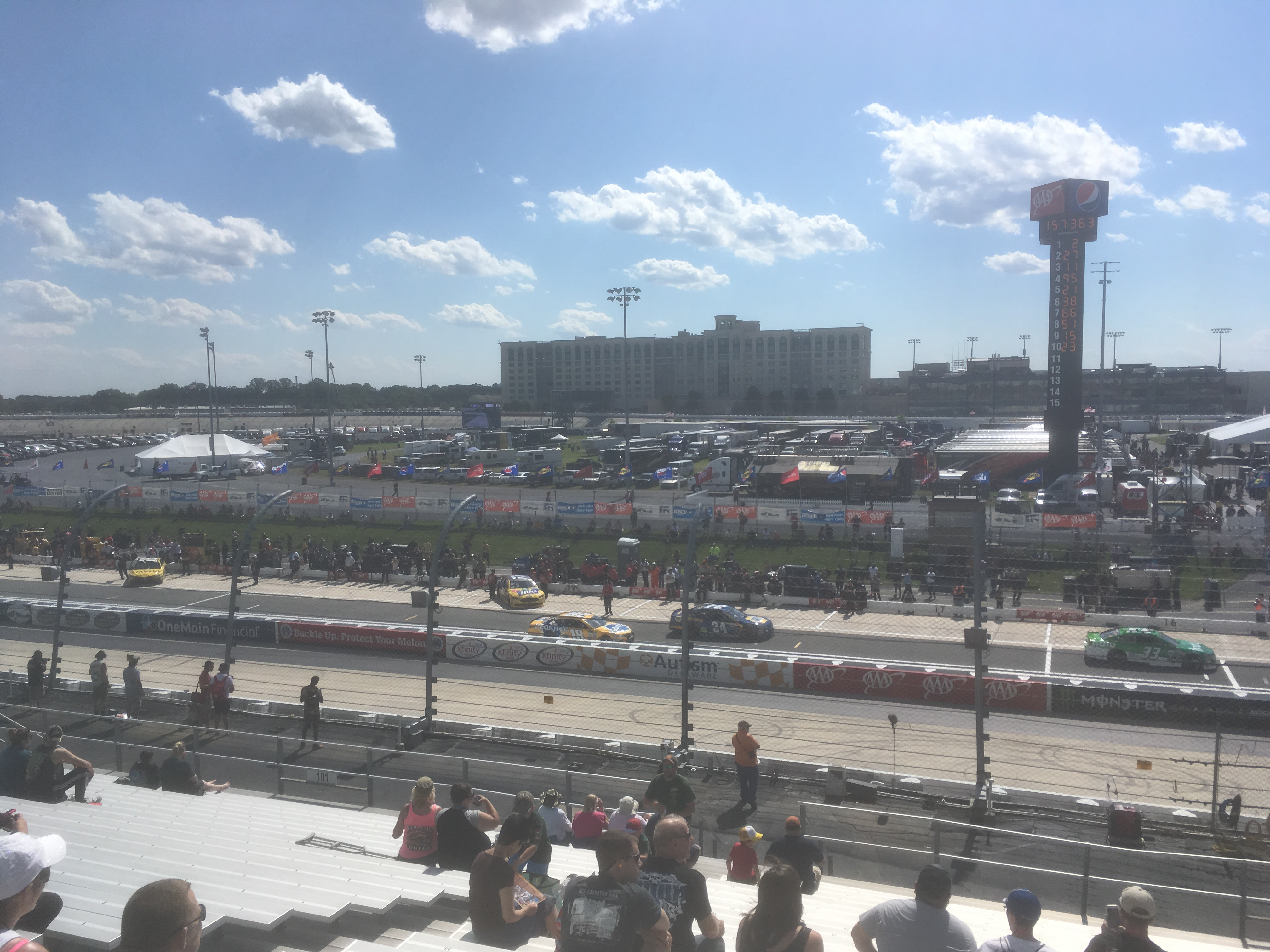 Qualifying for the 2017 AAA 400 Drive for Autism at Dover International Speedway viewed from the frontstretch.